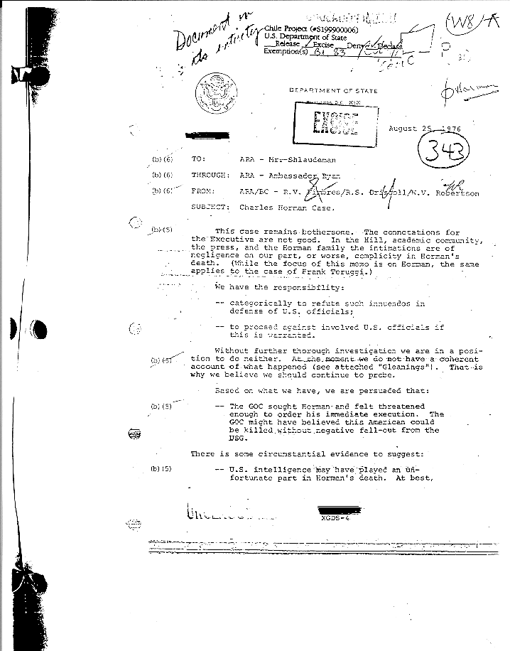 CIA declassified documents about Charles Horman "Missing" Case - Santiago - Chile 1976